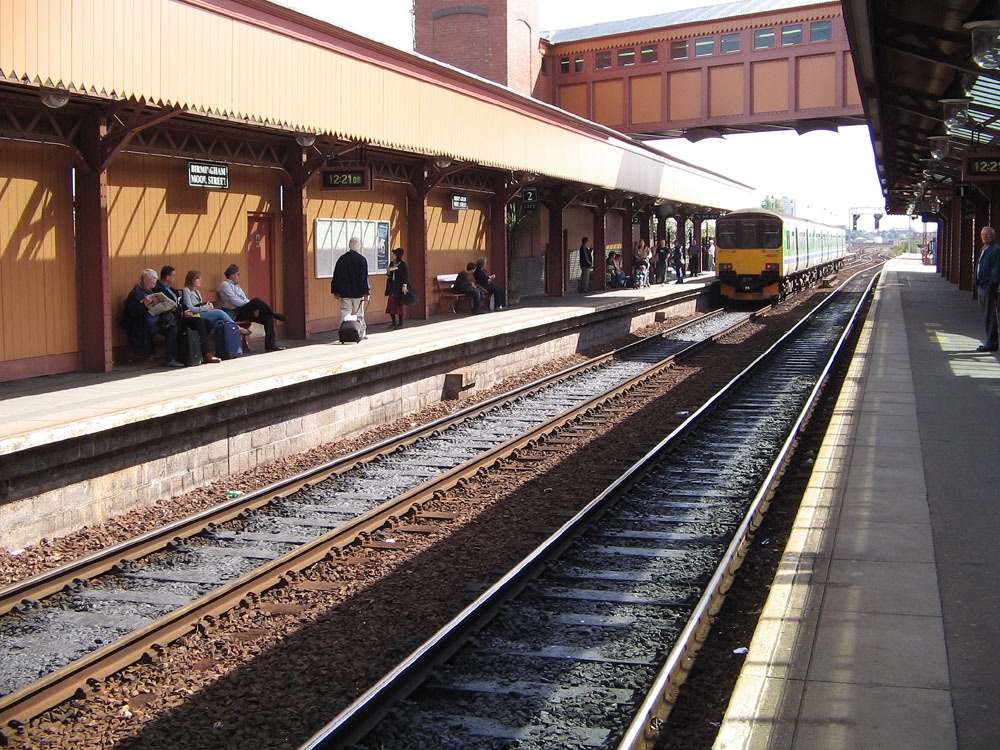 Platforms on Birmingham Moor Street station in Birmingham. Photo by G-Man * Aug 2006